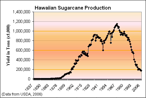 Graph illustrating the tons of sugarcane harvested in Hawai`i